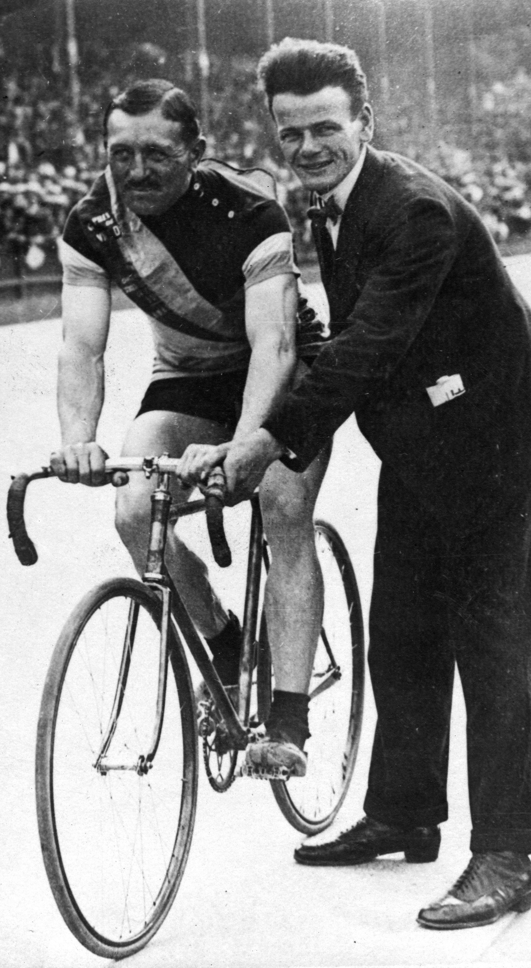 Dutch cyclist Maurice Peeters posing as olympic champion 1 km sprint. 1920, Antwerp.